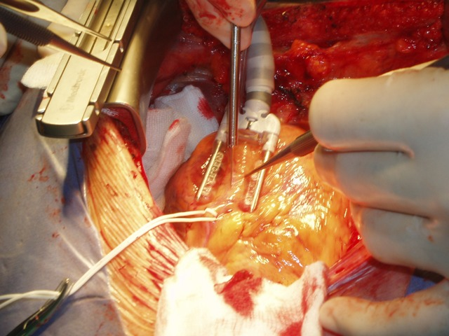 Disecting AD coronary artery